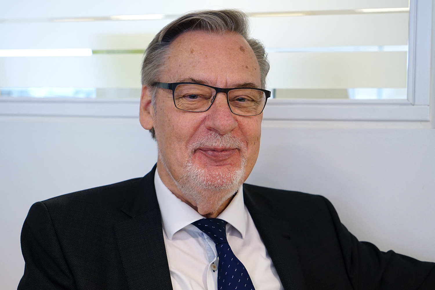 Ole Bjørstorp, politician (Social Democrats) and Mayor of Ishøj Municipality, Denmark from 2001